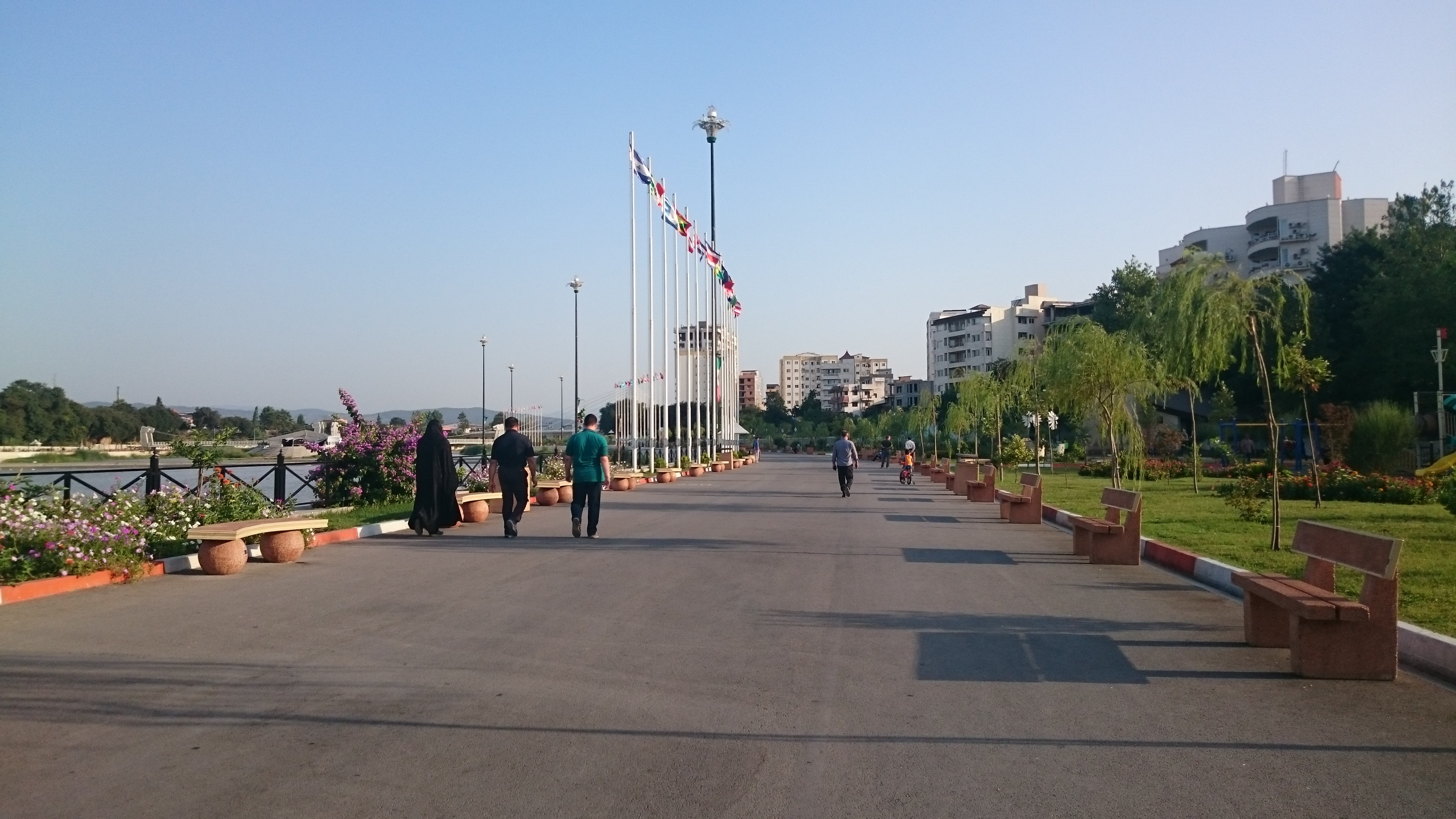 Nations Park in Sari ,Iran